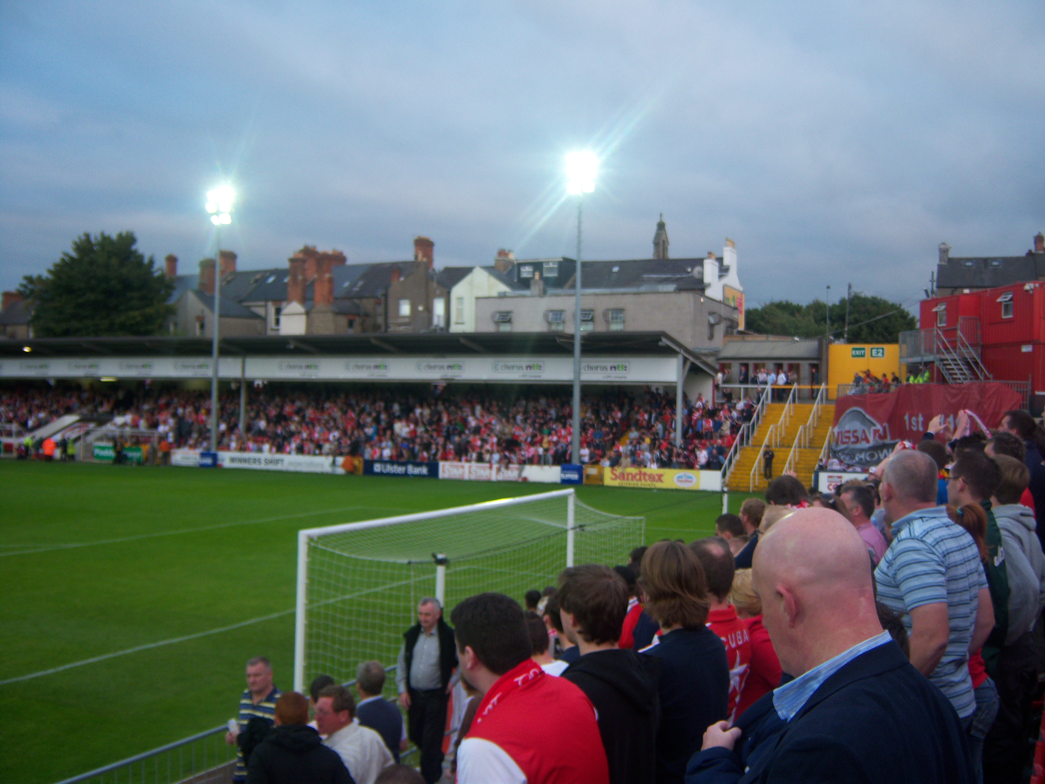 Richmond Park, Dublin under lights on match night.